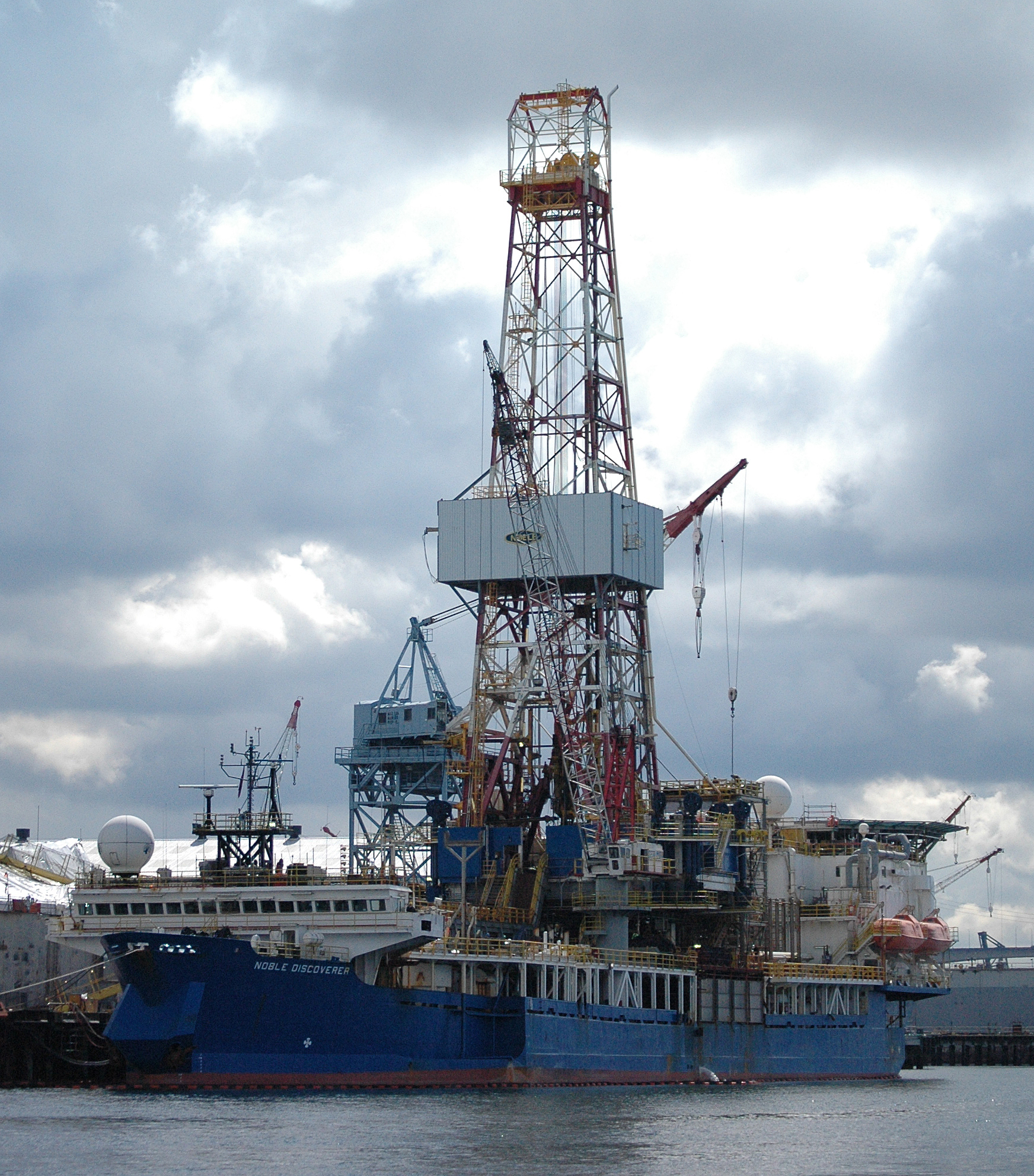 The oil drilling ship Noble Discoverer (IMO 6608608), seen April 5, 2012 in the Port of Seattle before its trip to Alaska for the summer Arctic drilling season